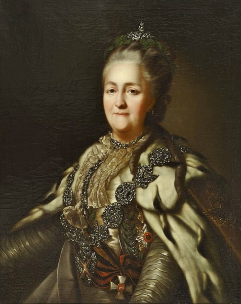 18th Century Portrait of Empress Catherine II of Russia (exposure adjusted)